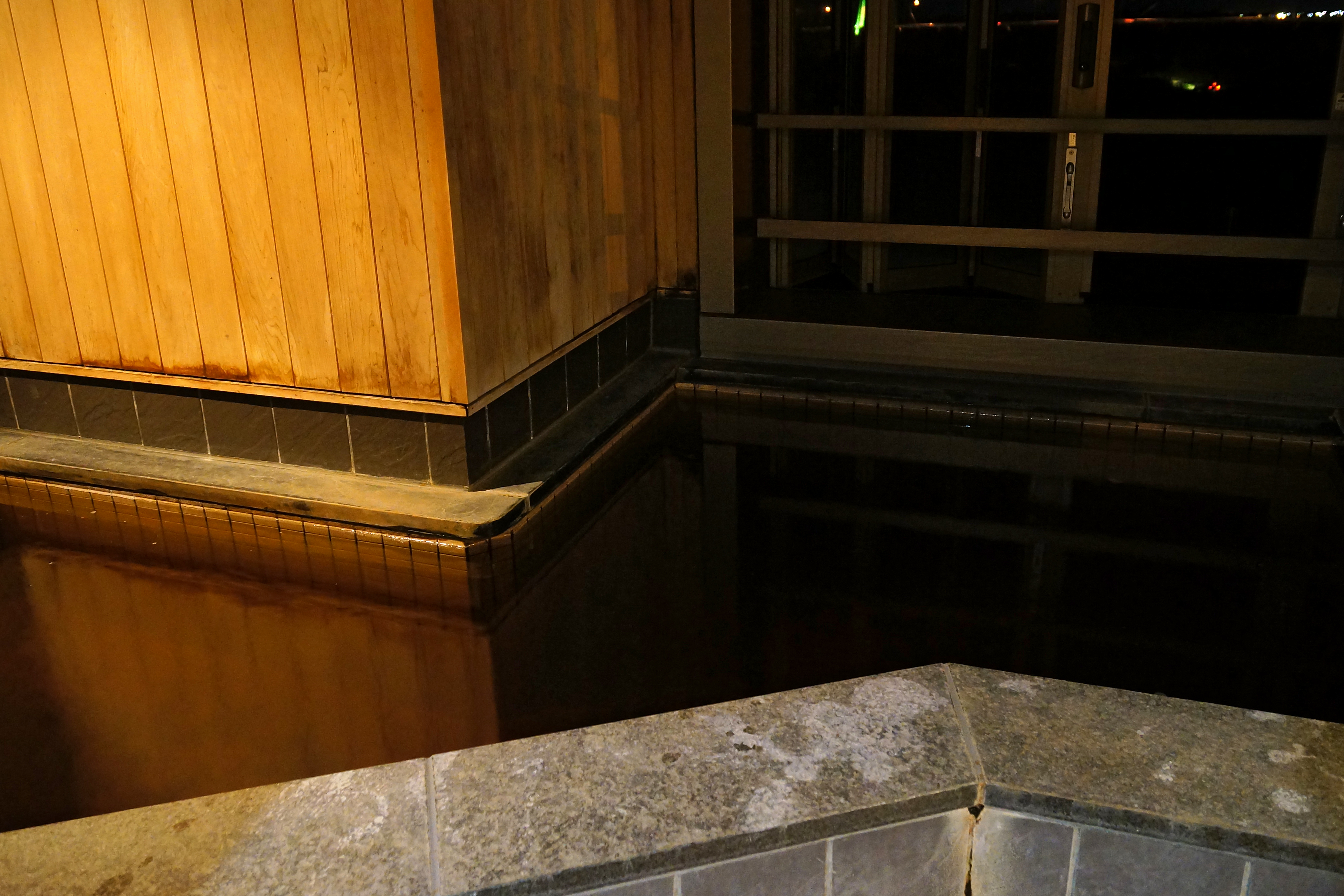 At Tokachigawa Onsen in Otofuke, Hokkaido prefecture, Japan.